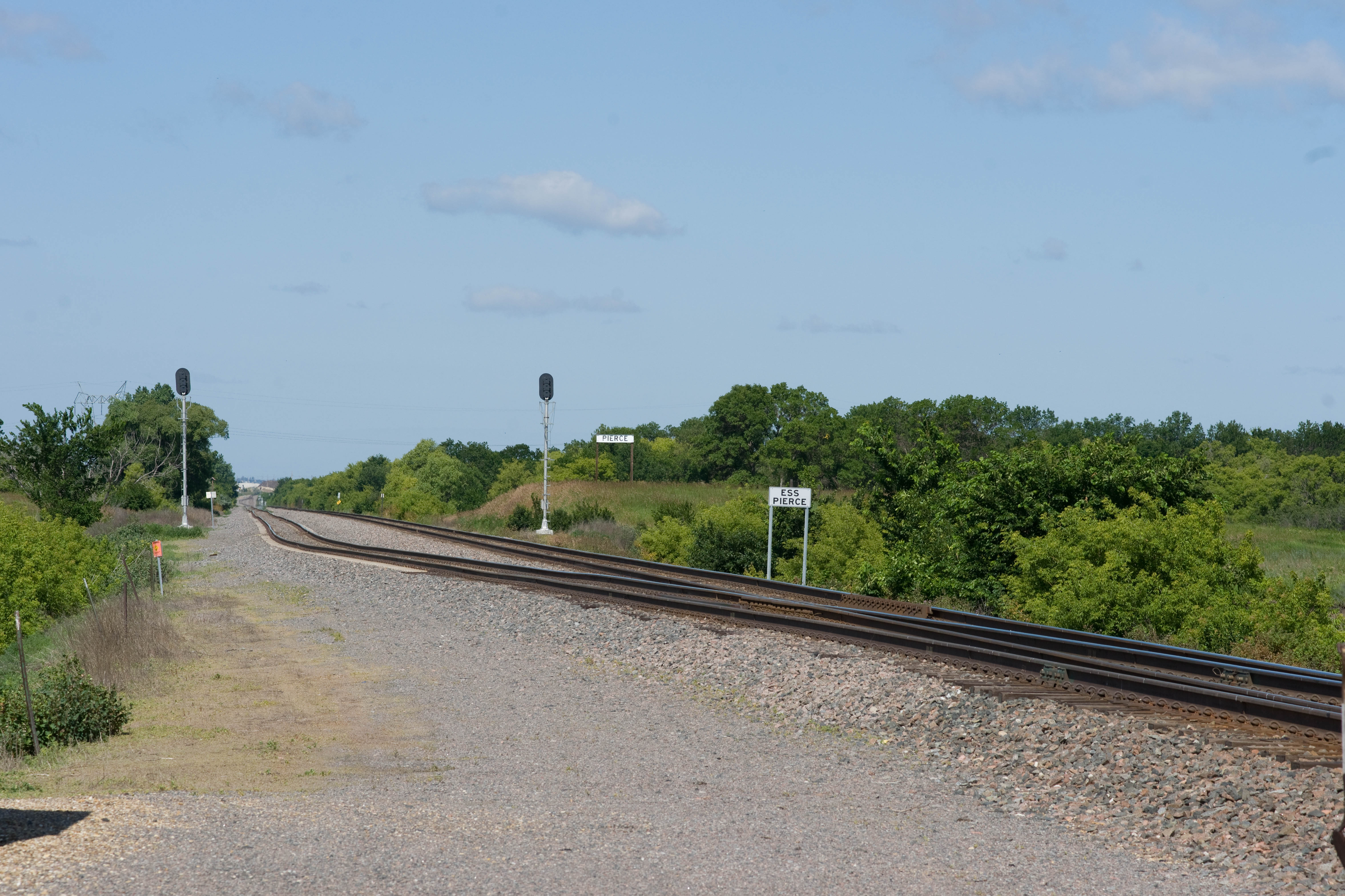 Railroad in Pierce, Burleigh County, North Dakota